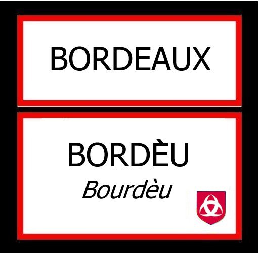 A proposal for road sign concerning the city of Bordeaux, in french and gascon (two writing systems).